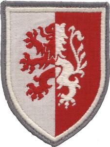 coat of arms of the Bundeswehr (Armed Forces of the Federal Republic of Germany). → Remarks on naming and categorization scheme